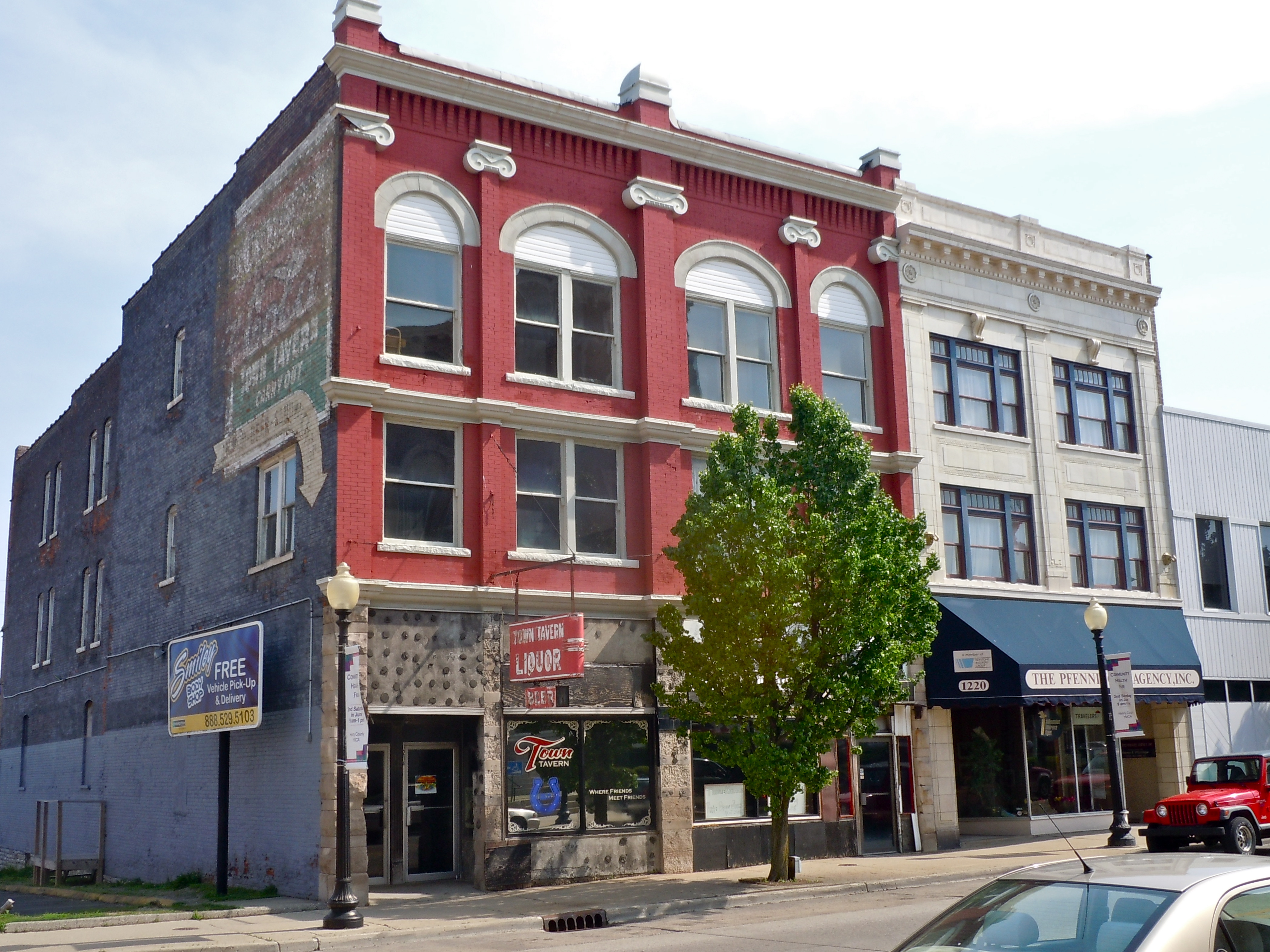 Buildings in New Castle Commercial Historic District on the NRHP since December 19, 1991. The historic district is roughly bounded by Fleming and 11th Sts., Central Ave. and the Norfolk Southern railroad tracks, New Castle, Indiana. These particular buildings are on the north side of Rt 38, east of Main Street.